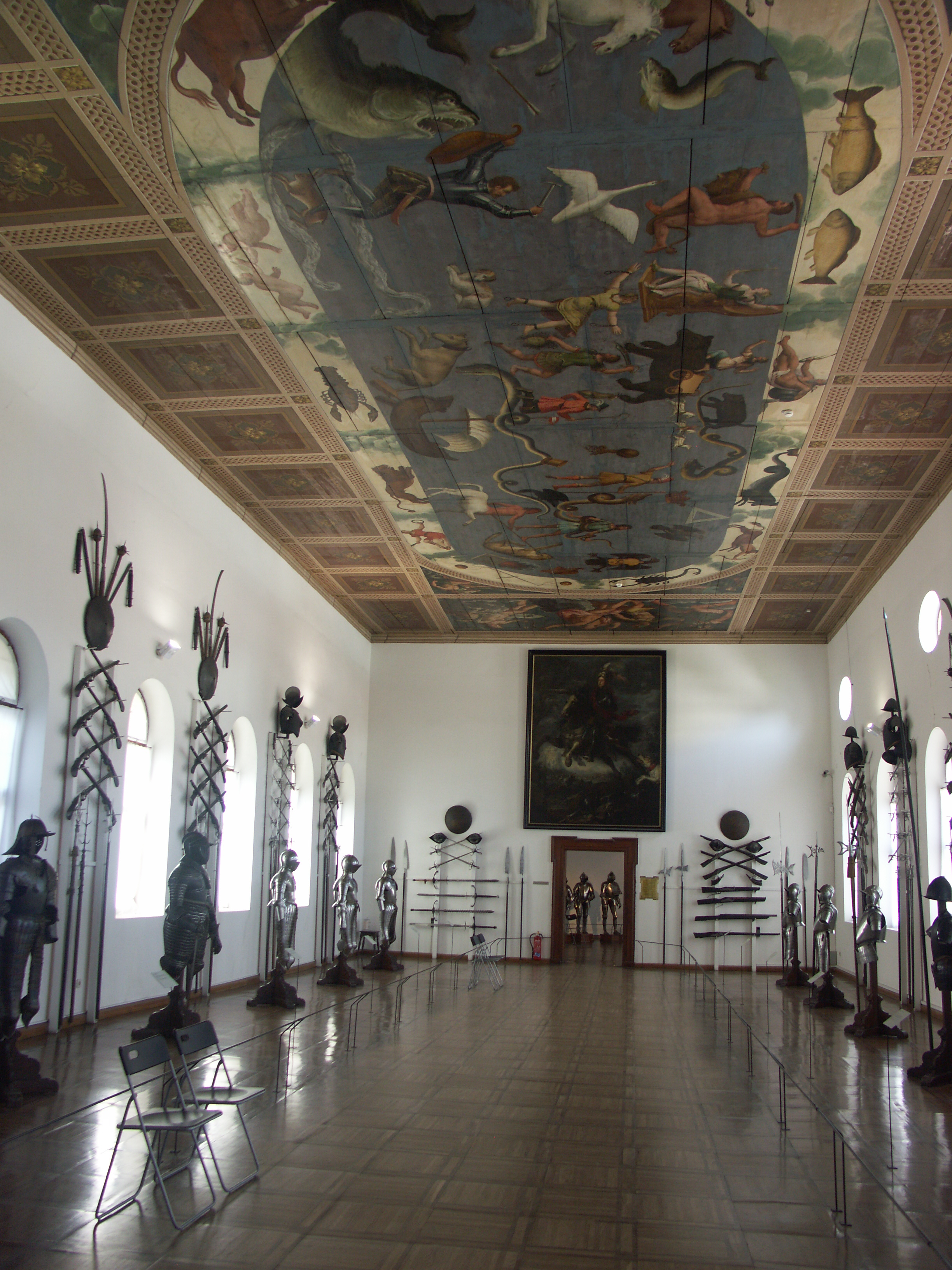 Ambras Castle. Armour collection